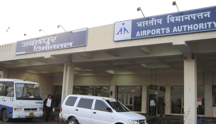 Terminal Building front view